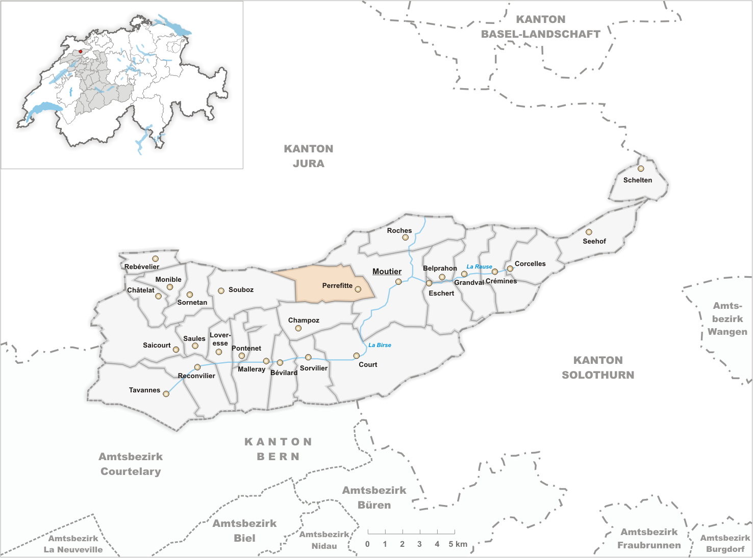 Municipality Perrefitte